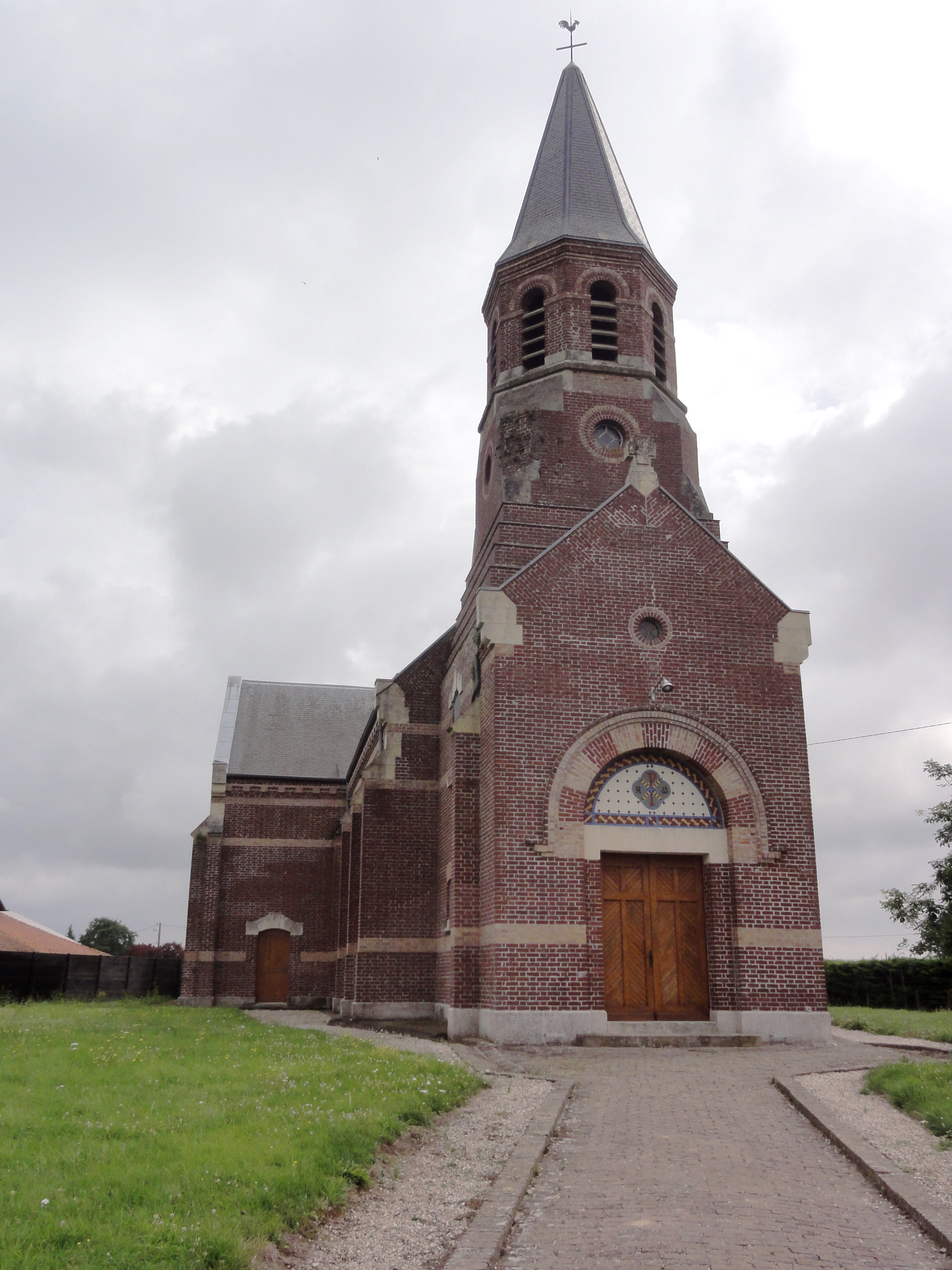 Beauvois-en-Vermandois (Aisne) église de l'Assomption, extérieur